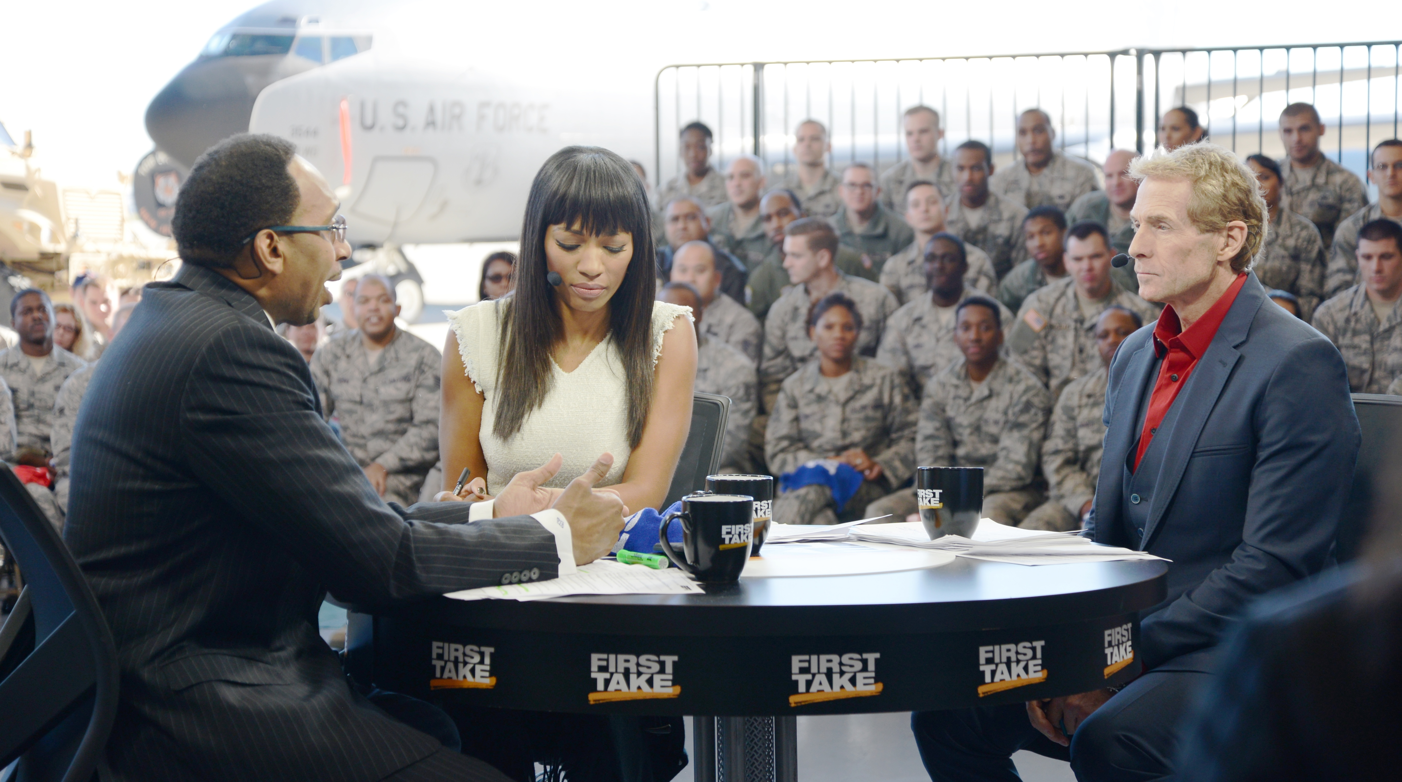 Airmen with the 108th Wing attend a special live broadcast of ESPN’s “First Take” hosted by Stephen A. Smith, Skip Bayless and Cari Champion, Nov. 10, 2014, at Joint Base McGuire-Dix-Lakehurst, N.J. The “Salute the Troops” broadcast, in honor of Veterans Day, was set with a backdrop of a KC-10 Extender, KC-135 Stratotanker and other military vehicles. (U.S. Air National Guard photo by Tech. Sgt. Carl Clegg/Released)